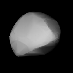 3D convex shape model of 1848 Delvaux, computed using light curve inversion techniques. J. Hanuš, J. Ďurech, M. Brož, B. D. Warner (June 2011). "A study of asteroid pole-latitude distribution based on an extended set of shape models derived by the lightcurve inversion method". Astronomy and Astrophysics 530: A134. ISSN 0004-6361. arXiv